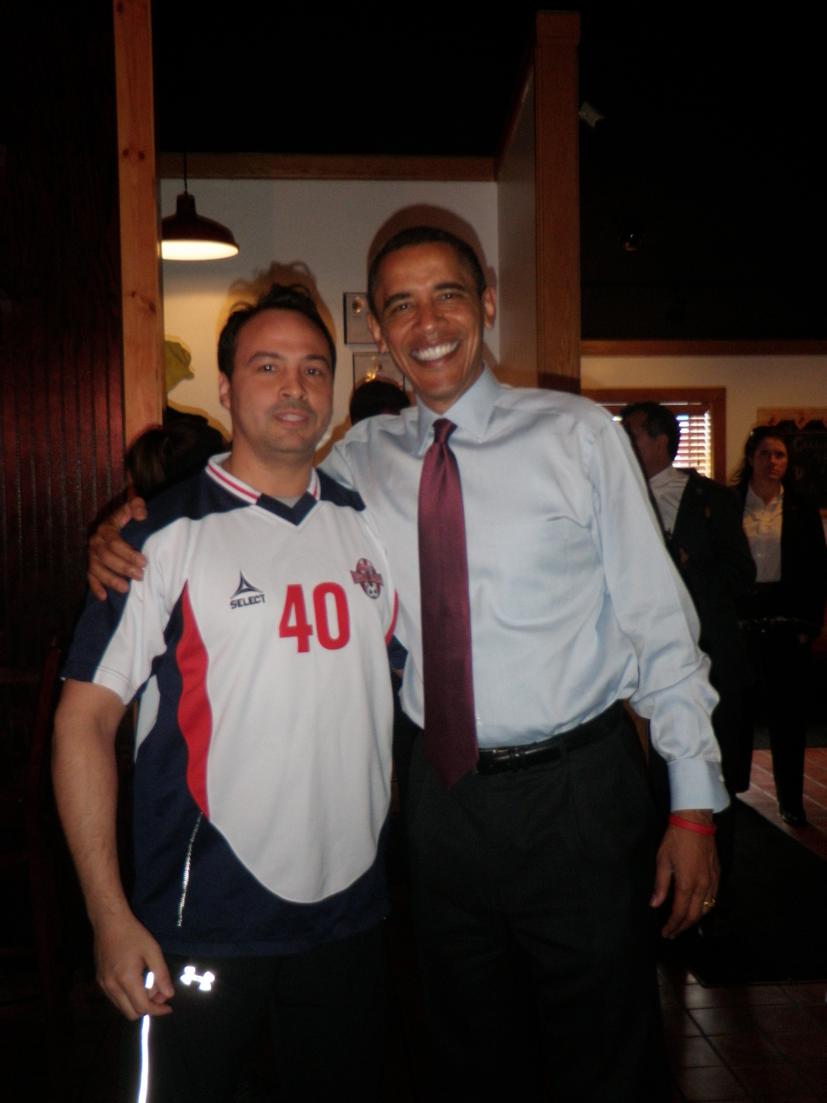 President of the United States Barack Obama in Buffalo, NY with Martial Arts Hall of Famer A.J. Verel